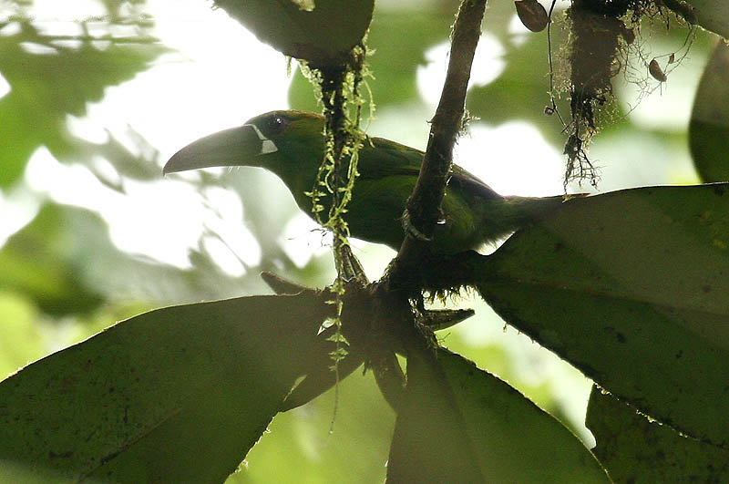 Crimson-rumped Toucanet (Aulacorhynchus haematopygus) at Milpe Bird Sanctuary, NW Ecuador.